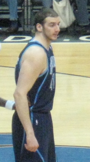 Utah Jazz at Washington Wizards game action